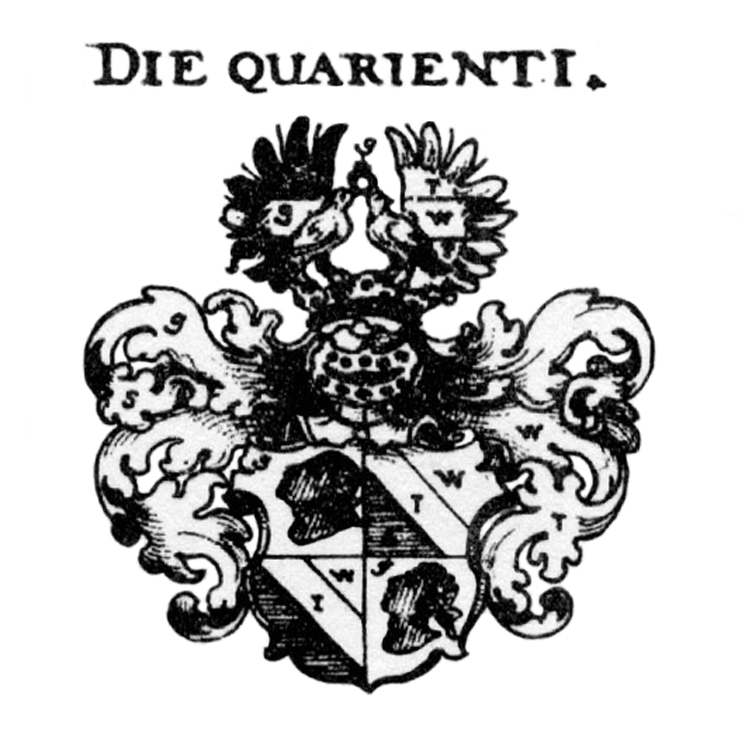 Coat of arms of Quarient (Quarienti), Austria